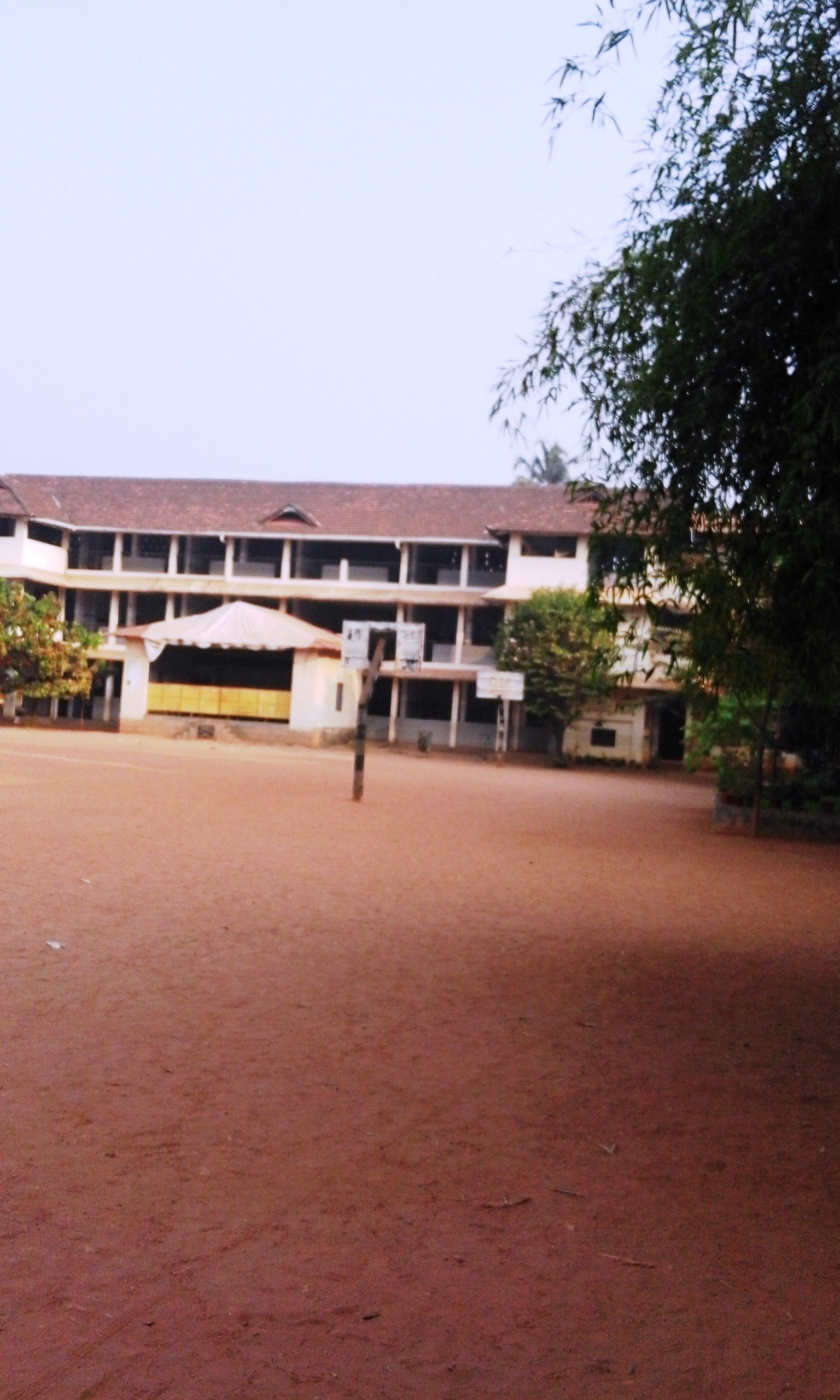 Kannanchery, Kozhikode District, Kerala province, India.